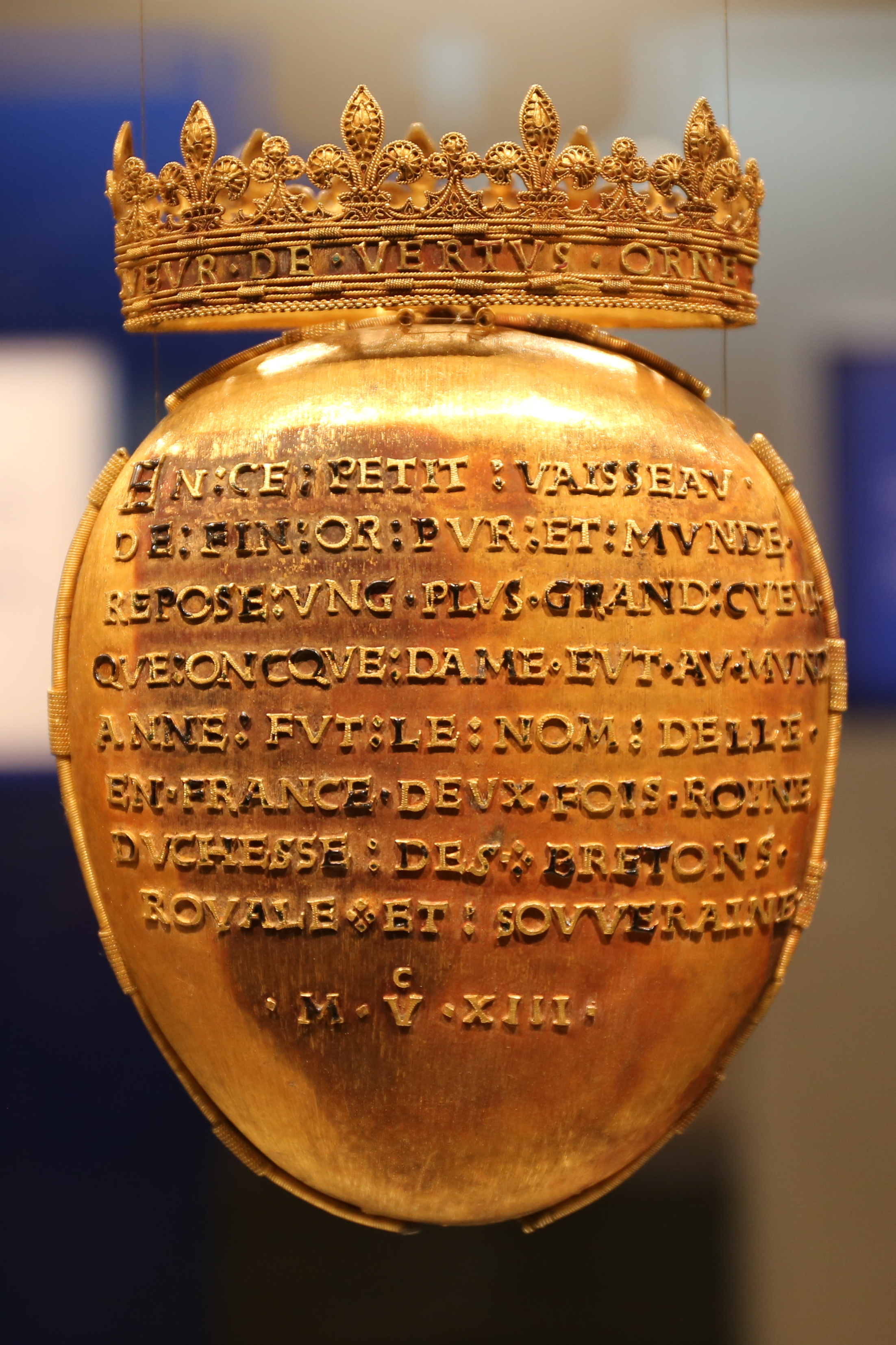 Cardiotaph of Anne of Brittany exposed in the Musée de Bretagne, Rennes.